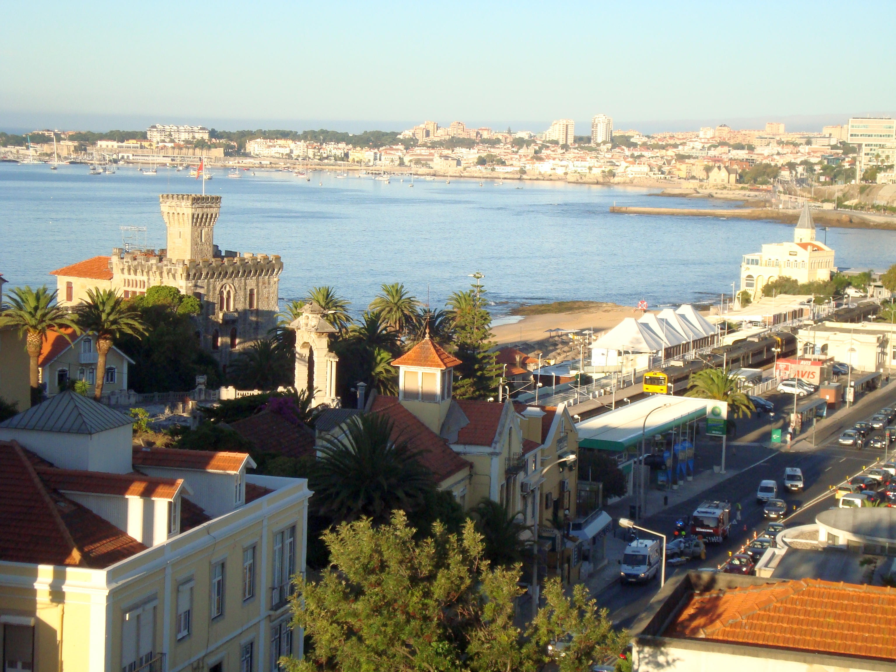 Photo taken in 2012